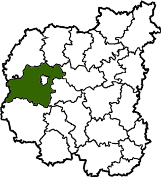 Chernigivskyi-Raion map